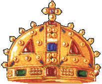 Serbian tzar Stefan Uroš IV Dušan of Serbia with his wife Jelena, middle of XIV century, monastery Lesnovo, Republic of Macedonia